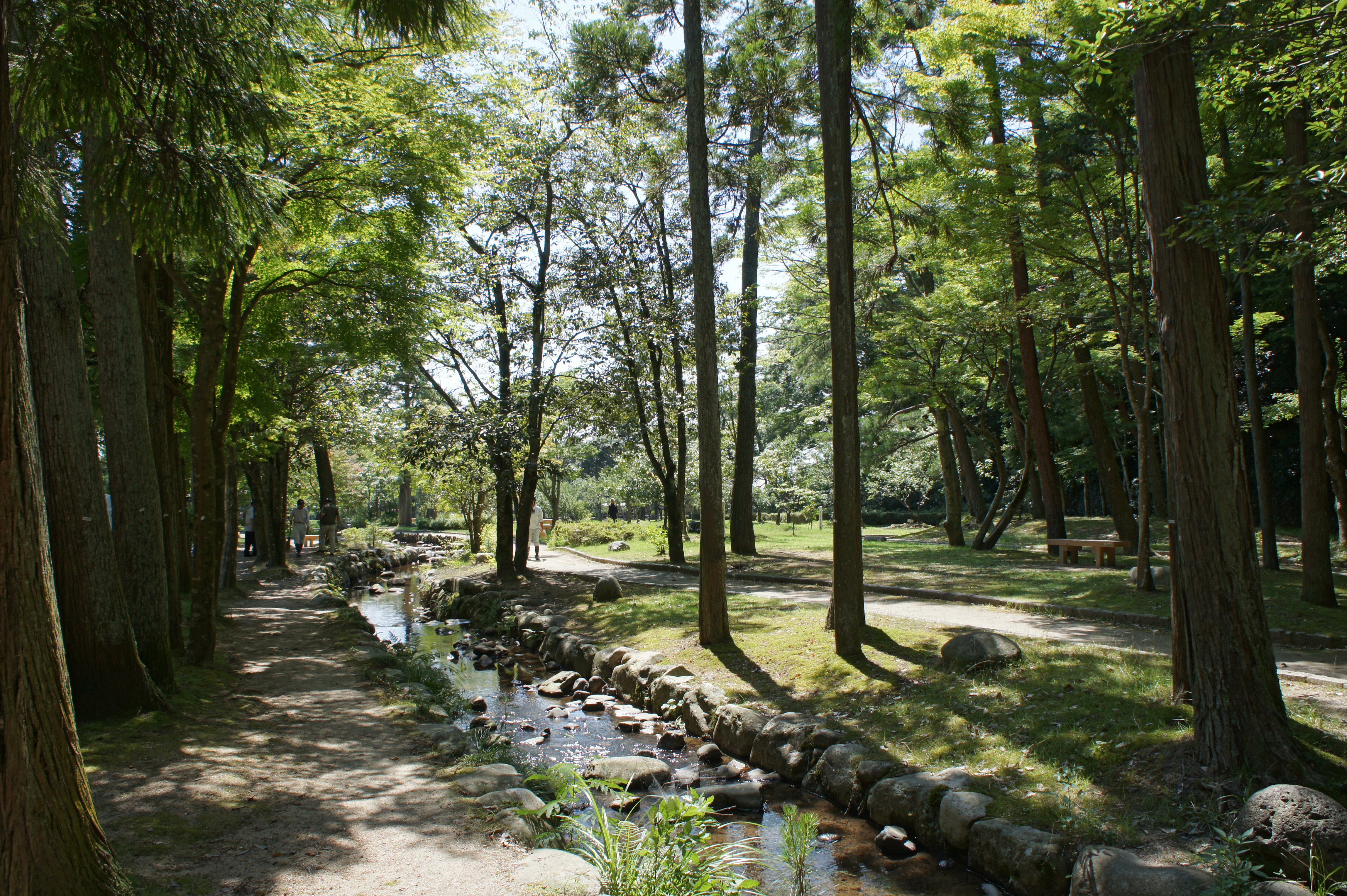 Oochidani Park in Tottori, Tottori prefecture, Japan.